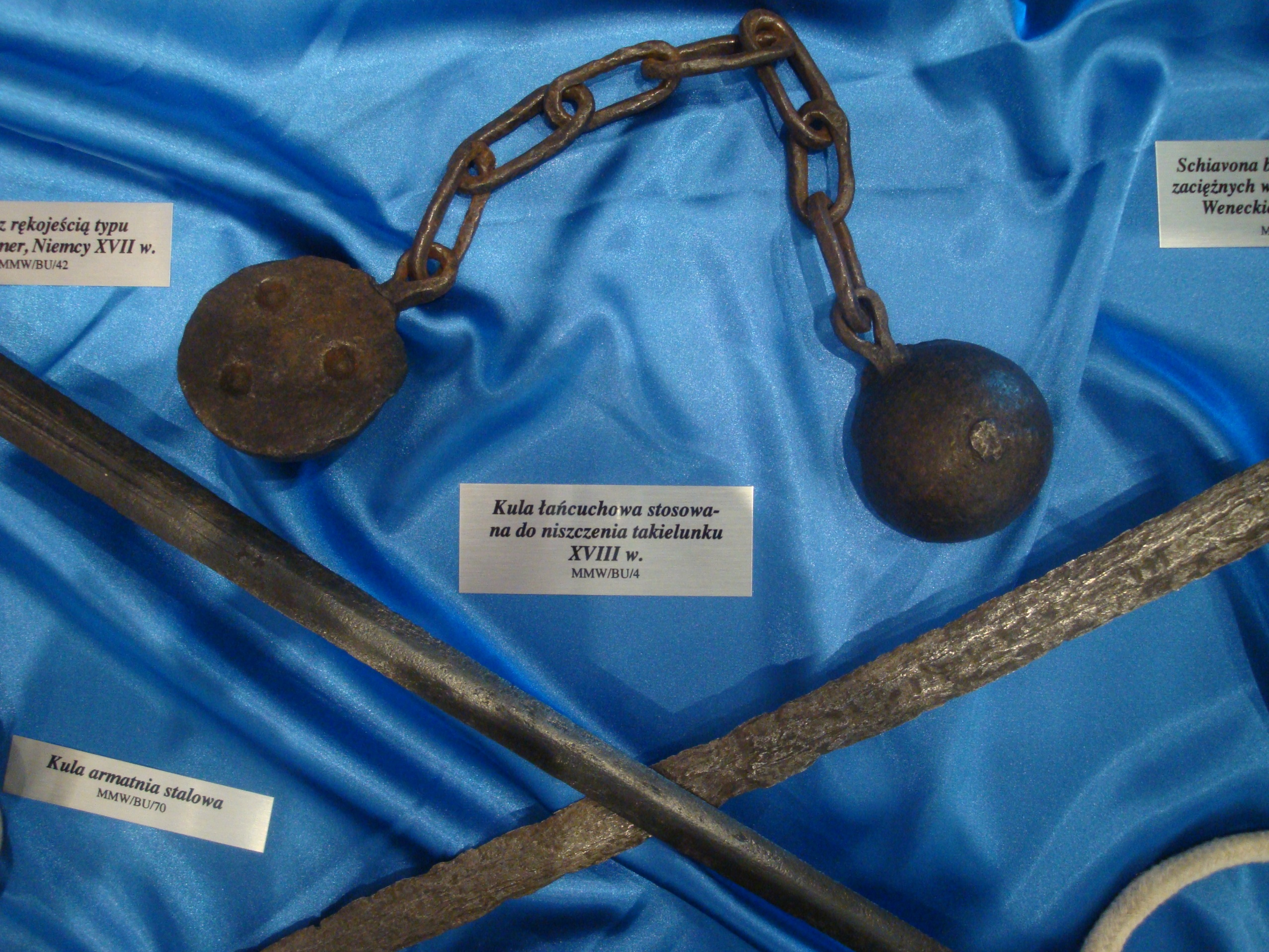 Chain-shot from XVIII century. Projectile for naval artillery designed to damage rigging of enemy ship.